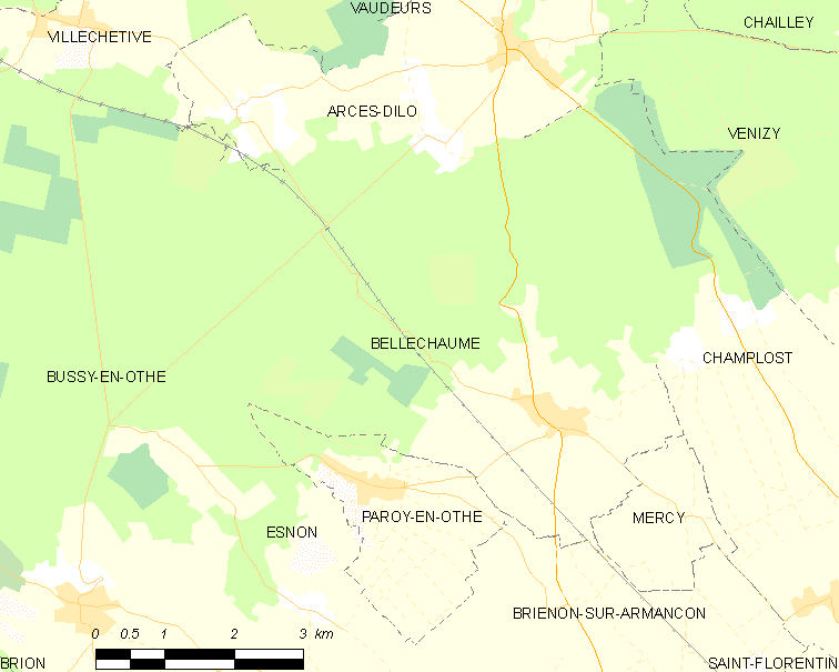 Map of French municipality Bellechaume